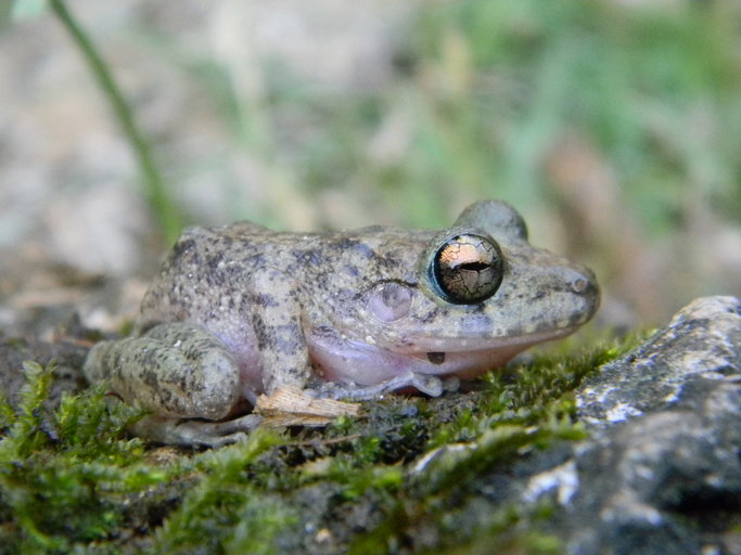 Craugastor pozo from Berriozabal, Chiapas (Mexico)